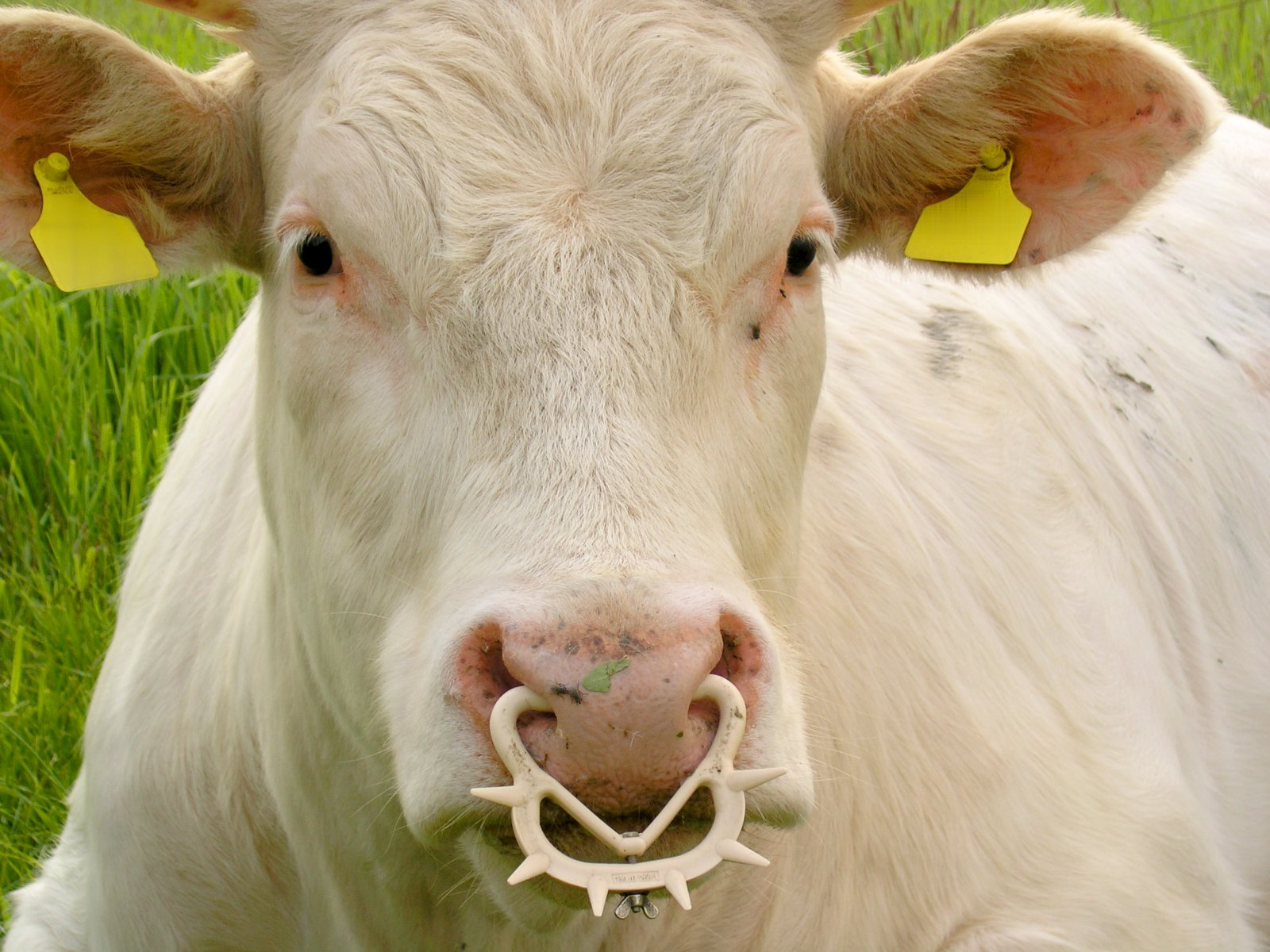 Name: Bos taurus with a nose ring of the type that is used to wean calves. Family: Bovidae. Location: Münster, NRW, Germany